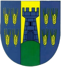 Coat of arms of Wartmannstetten, Lower Austria